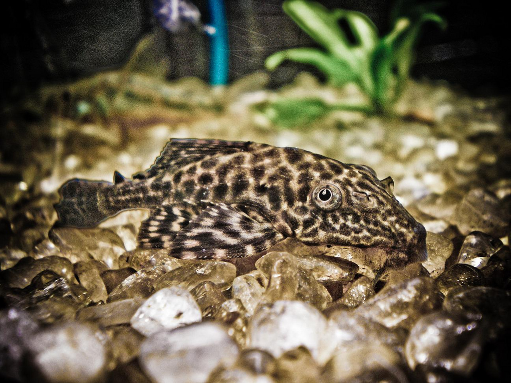 A Baby Plecostomus